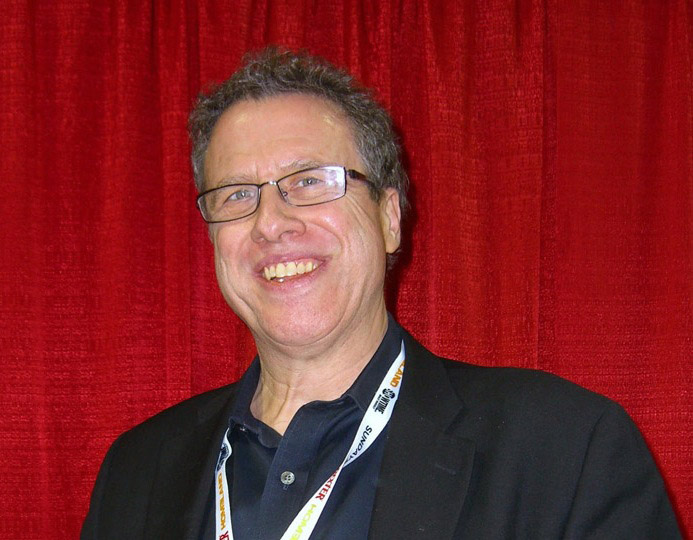 Comics creator Danny Fingeroth on Day 2 of the 2012 New York Comic Con, Friday October 12, 2012 at the Jacob K. Javits Convention Center in Manhattan. This photo was created by Luigi Novi. It is not in the public domain, and use of this file outside of the licensing terms is a copyright violation.